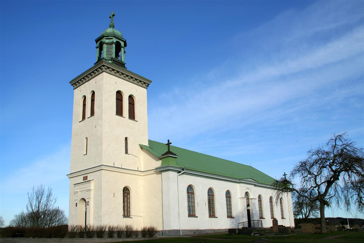 Tölö Church